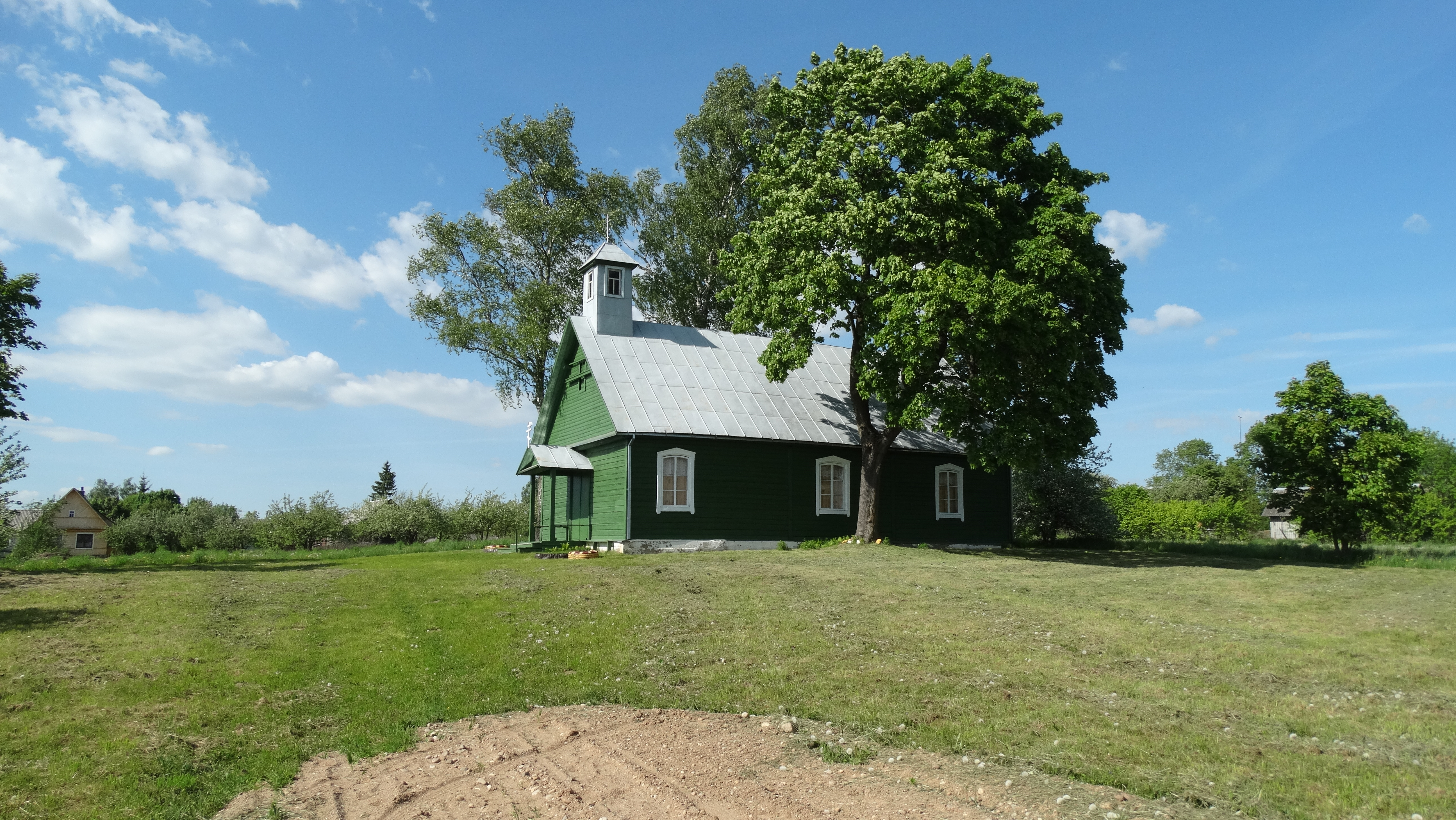 Church of Old Believers in Lukošiškė, Ignalina district, Lithuania